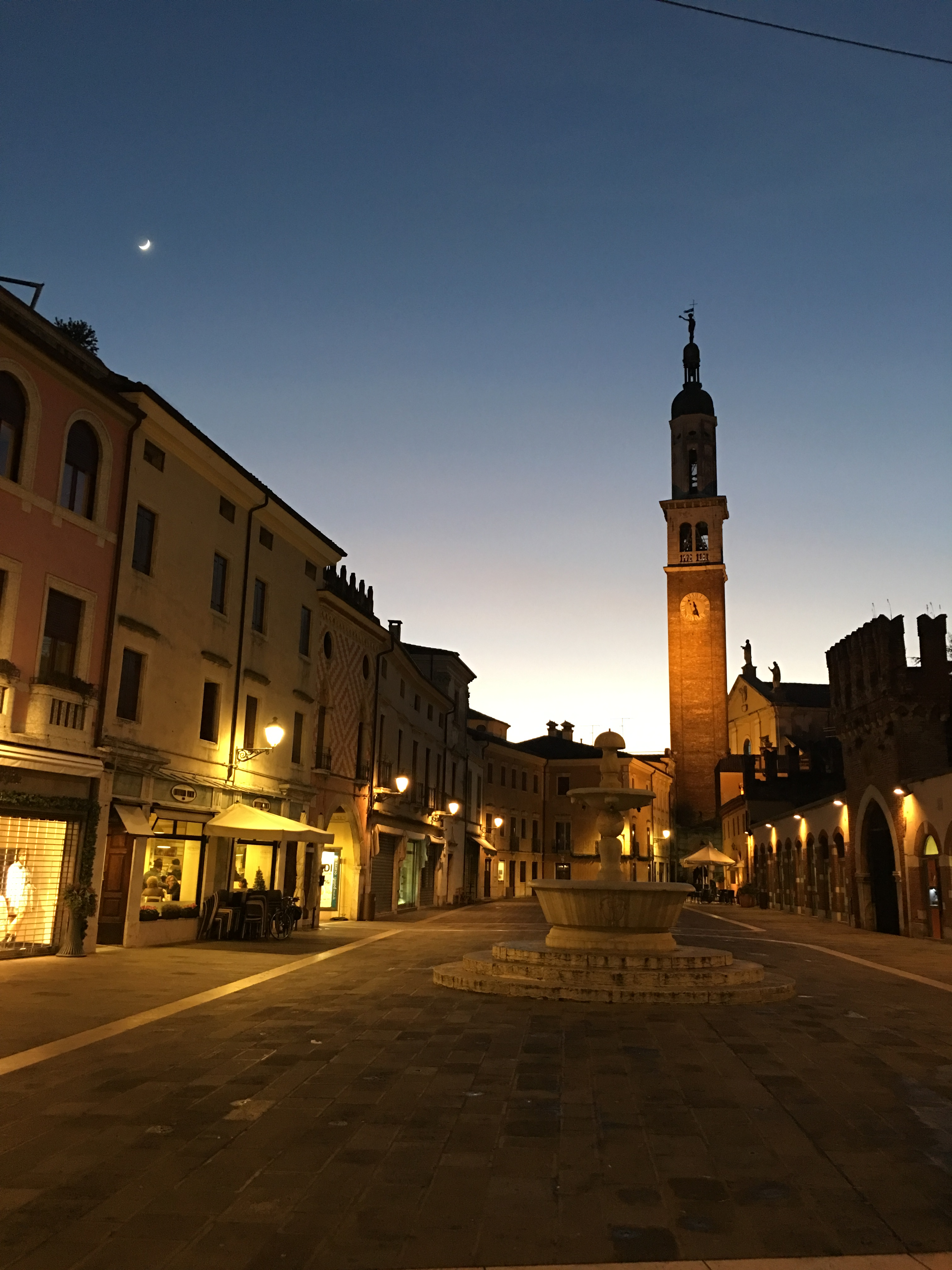 Chilesotti square in a winter sunset